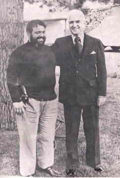 Sulllivan+Mashallah